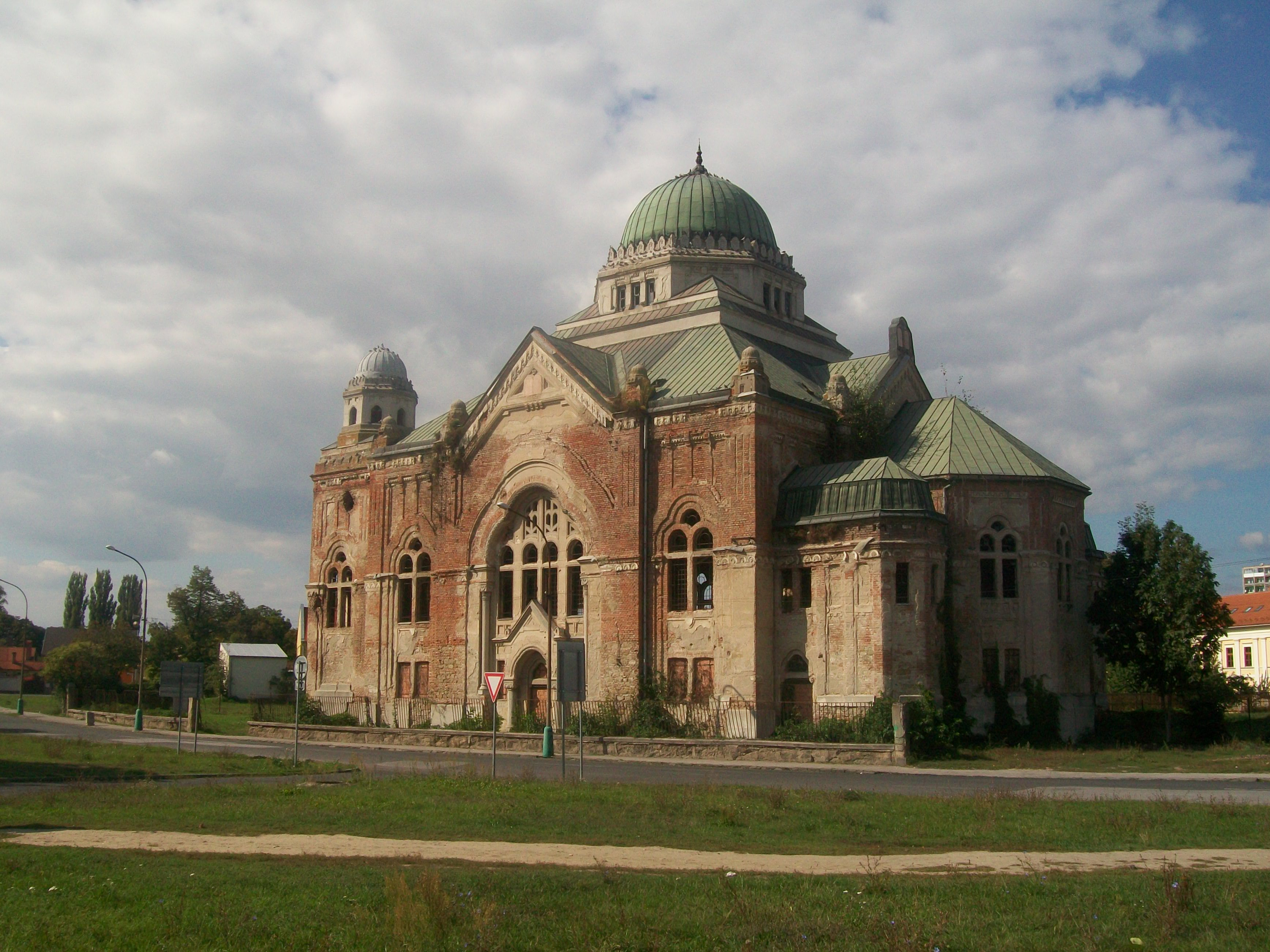 Synagogue has been built between 1923-1925 on the site of an earlier Moorish-style building from 1863. It was designed by Hungarian architect Lipót Baumhorn. It was consecrated on 9 of August 1925. It is ranked among the largest synagogues in Europe.